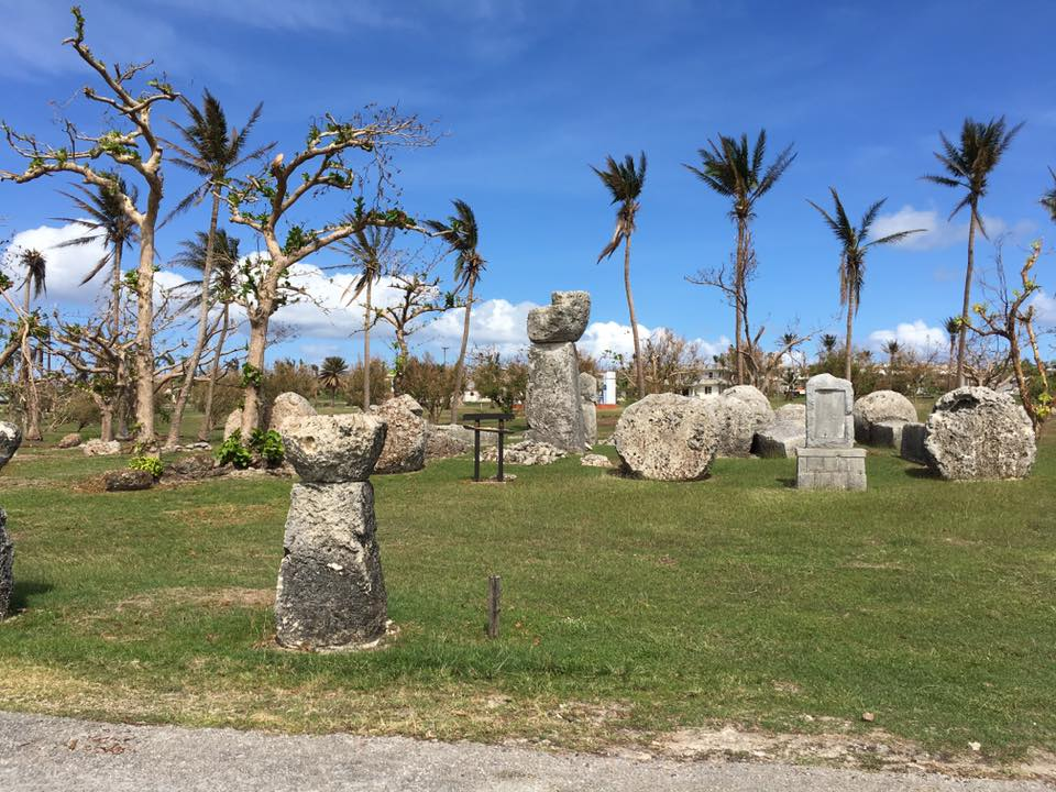 House of Taga on Tinian (vegetation reduced due to damage by Typhoon Yutu)